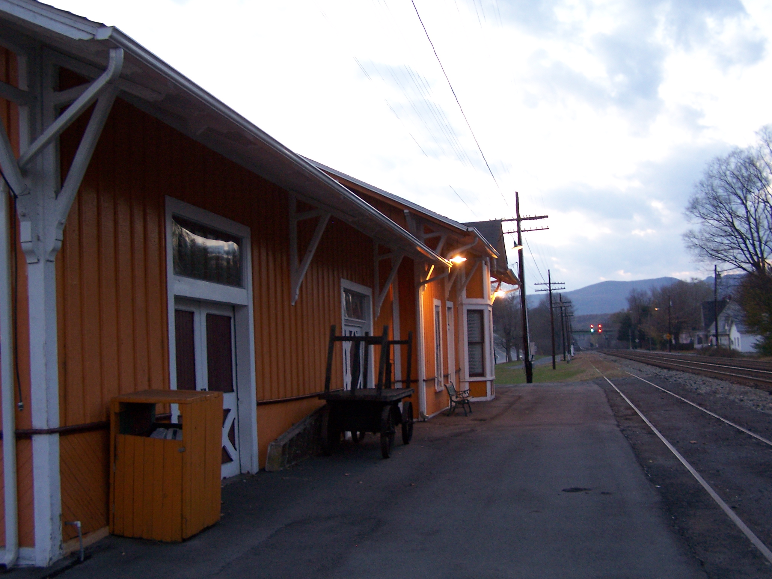 Chesapeake & Ohio Railway depot at Alderson, West Virginia.